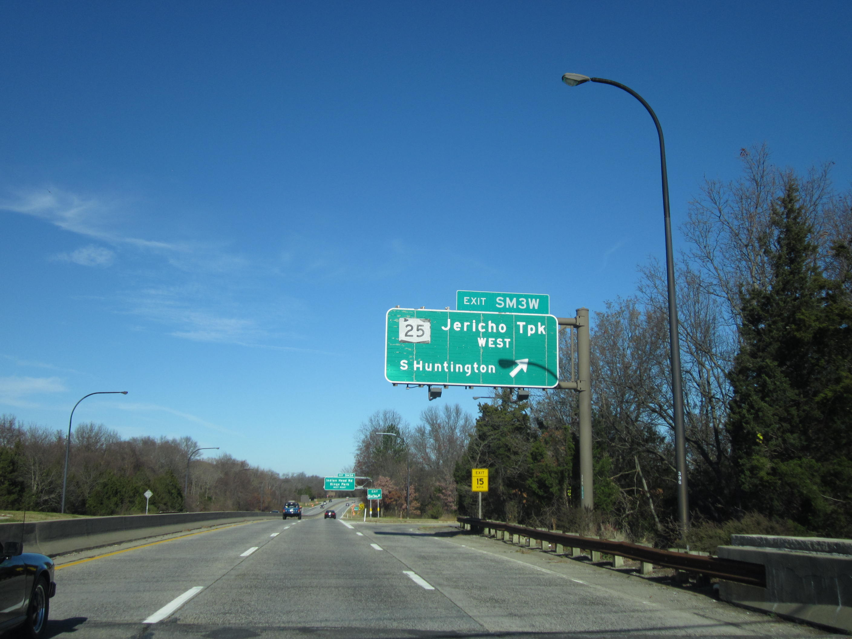 Sunken Meadow State Parkway northbound at exit SM3W, NY 25 (Jericho Turnpike)west in Commack.